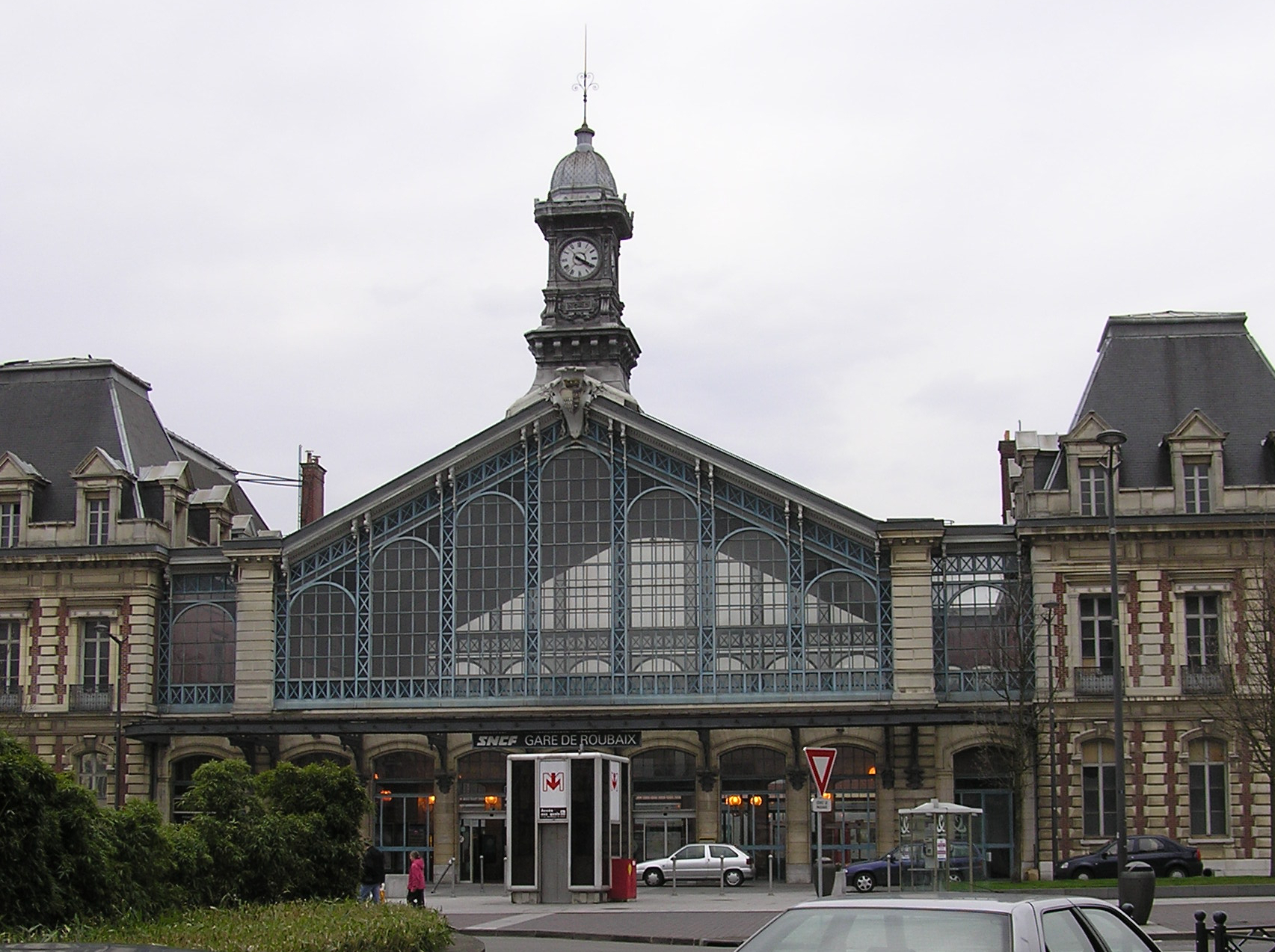 The Station of Roubaix, France